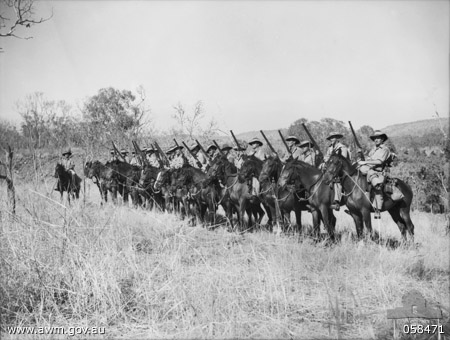 AWM Caption: KATHERINE RIVER, NT. 1943-10-01 TO 1943-10-08. TROOPERS OF THE NORTHERN AUSTRALIAN OBSERVER UNIT ON THEIR MORNING PARADE ON HORSEBACK.